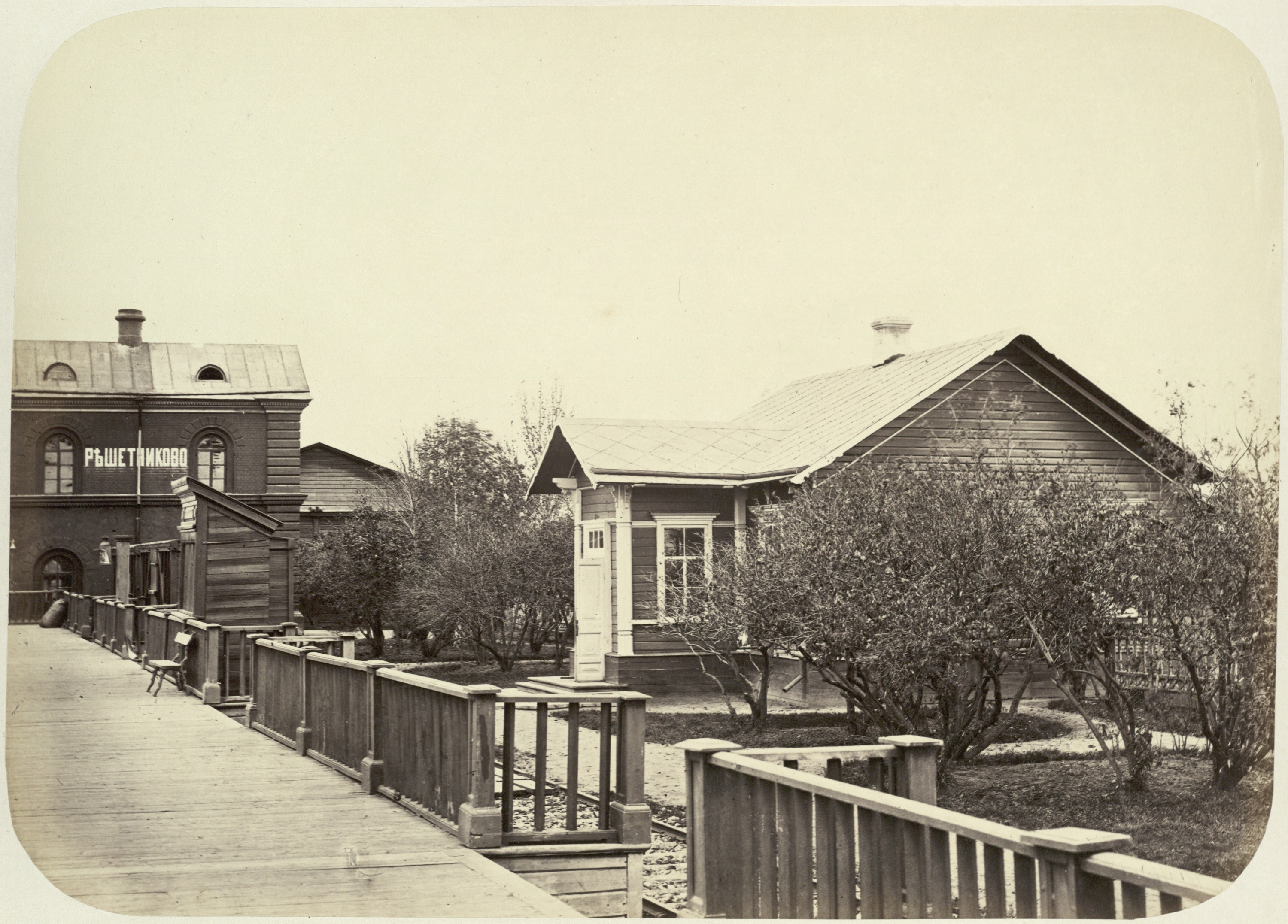 Railway station Reshetnikovo